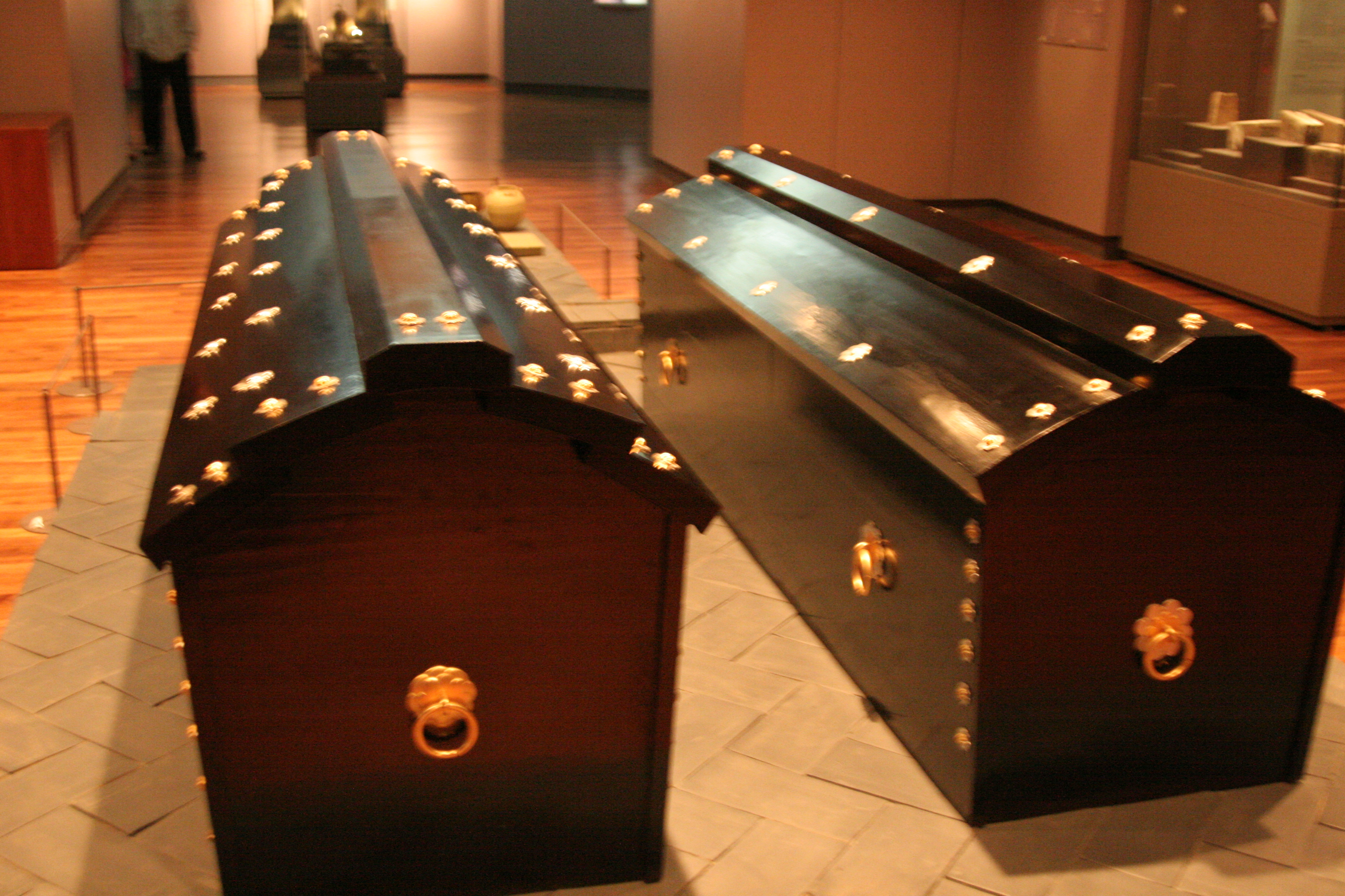 A replica of the wooden coffins the king and queen's bodies were interred in.